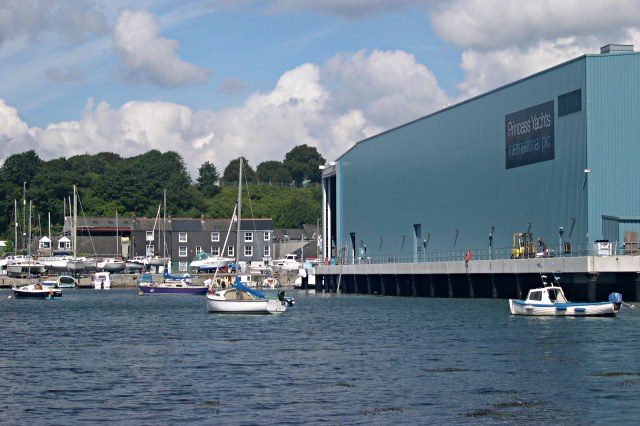 Stonehouse Pool and Boatbuilding Yard Looking across Stonehouse pool past the new Boatbuilding factory of Princess International to the houses on Richmond Walk. This photograph was taken from Admiral's Hard, the embarkation point for the ferry to Cremyll.